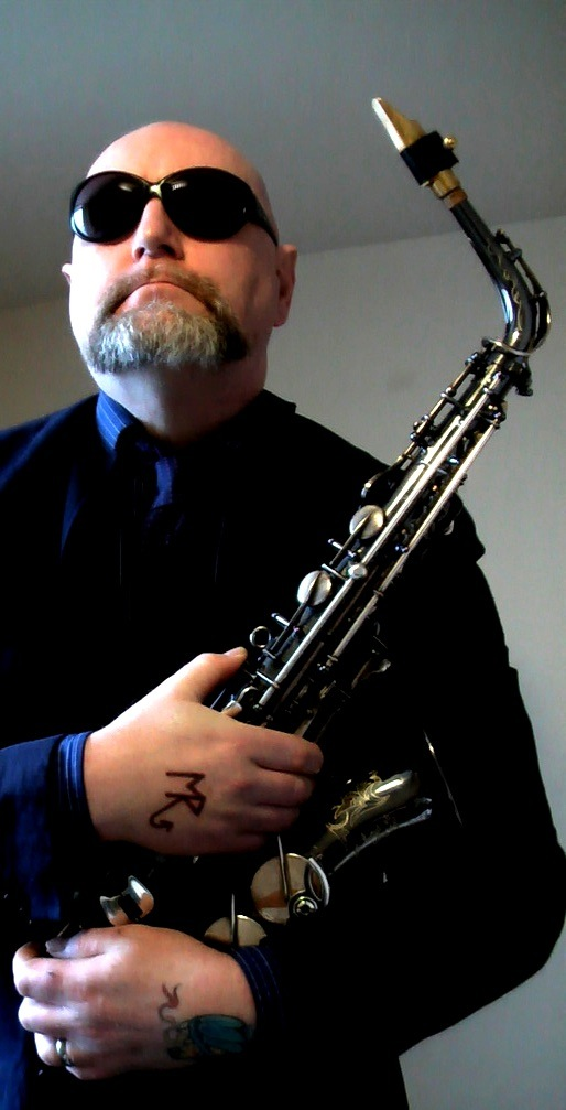 Mark Ramsden promotional photograph in suit and tie with saxophone